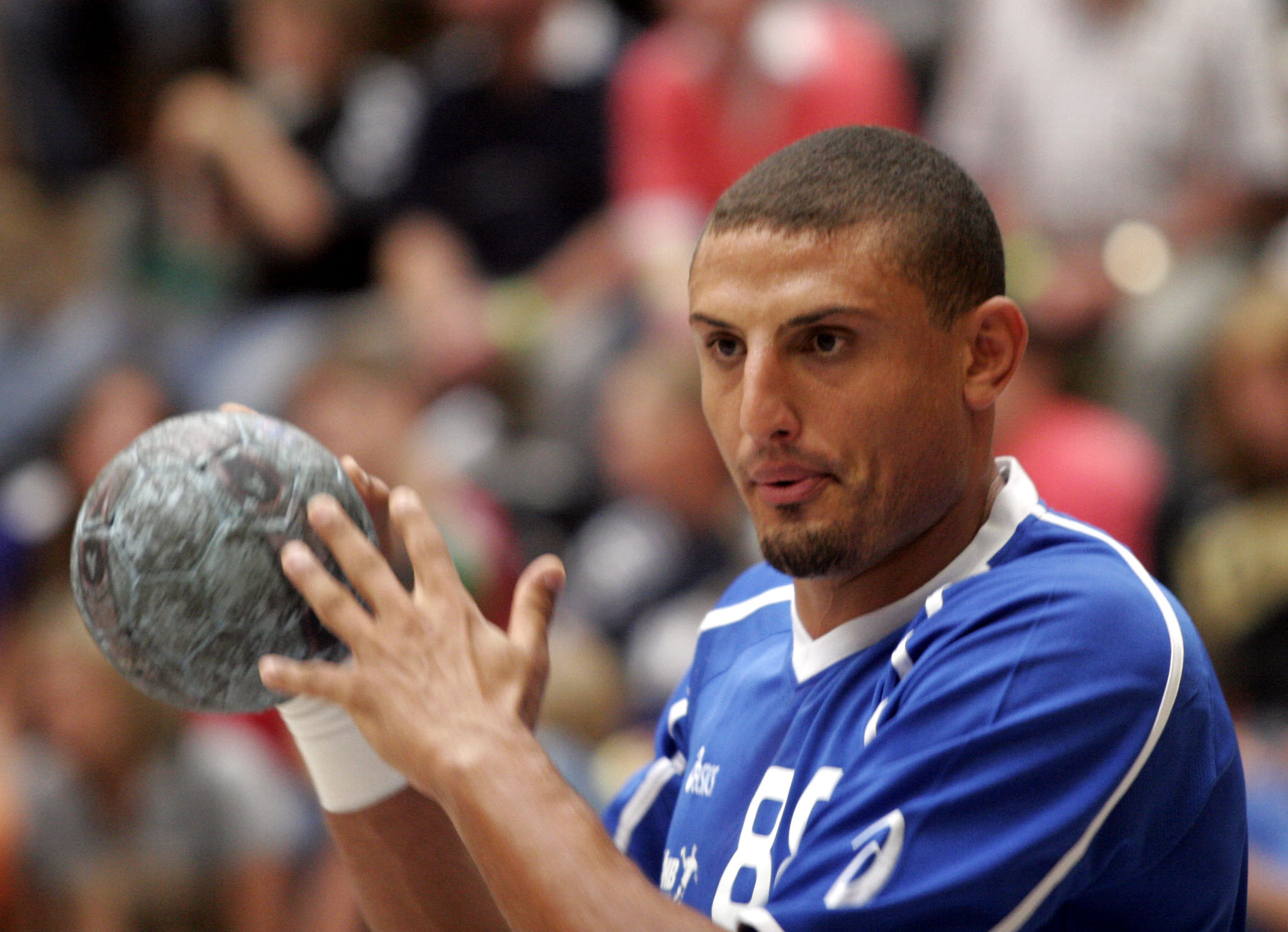 The Tunisian Handballplayer Wissem Hmam (Montpellier HB) during the Schlecker Cup 2007 in Ehingen (Germany)